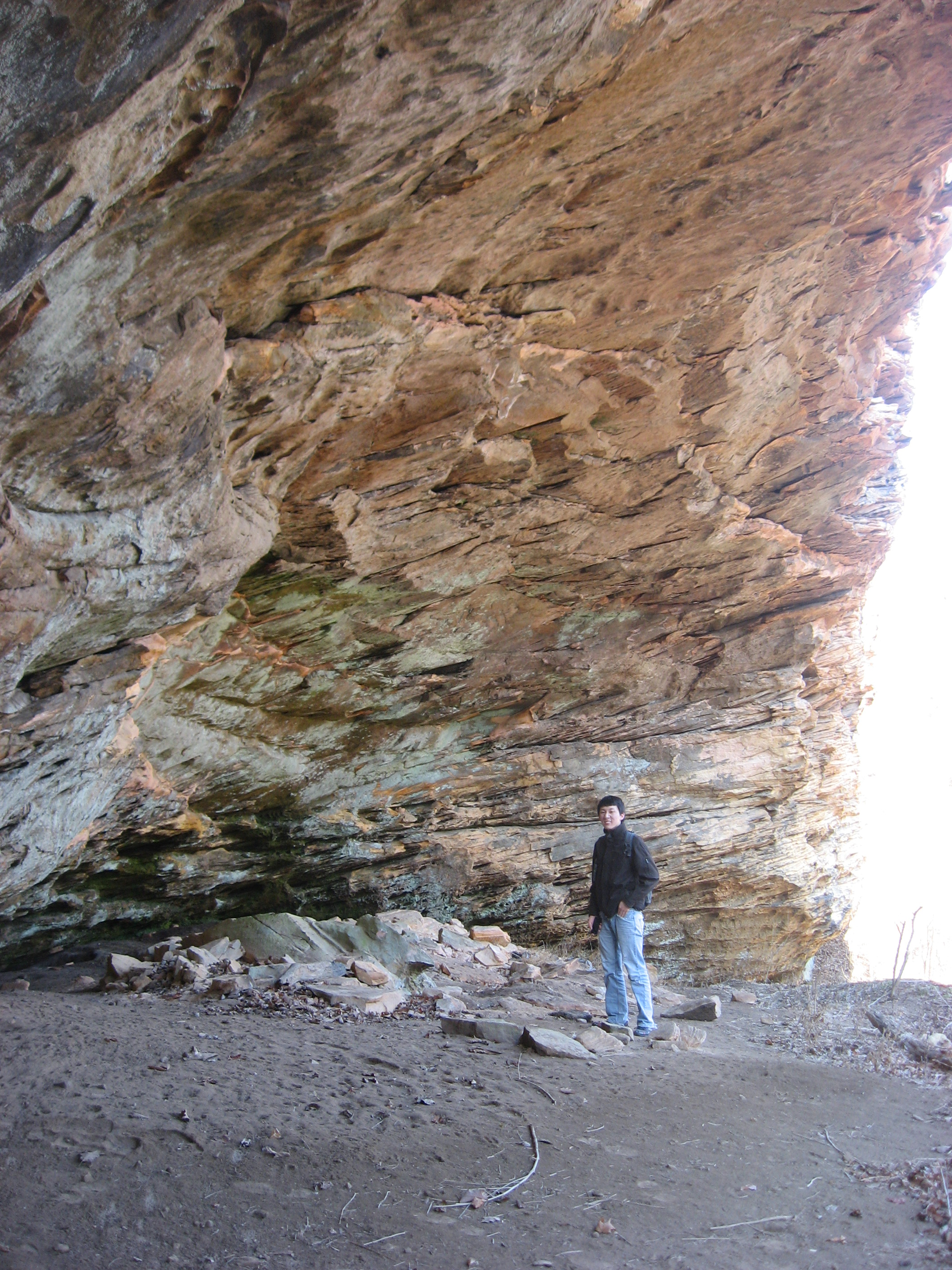 Interior of site 12PE100, one of the Rockhouse Cliffs Rockshelters, with an adult human for size comparison. The site lies at the mouth of Rockhouse Hollow in the Hoosier National Forest northwest of Derby in Union Township, Perry County, Indiana, United States. The rockshelters are archaeological sites and are listed together on the National Register of Historic Places.